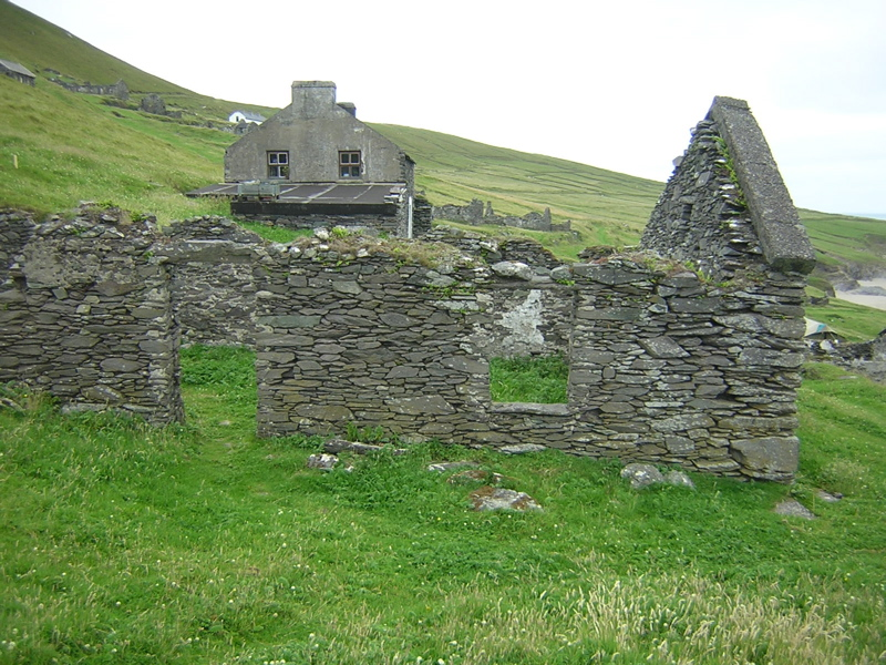 Muiris house, ruins and a dilapidated house.